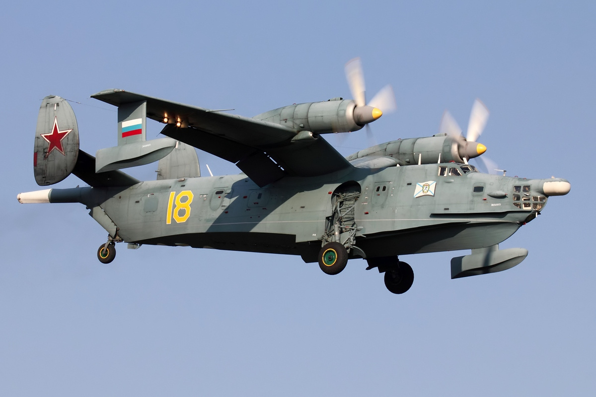 Amazing aircraft! :)